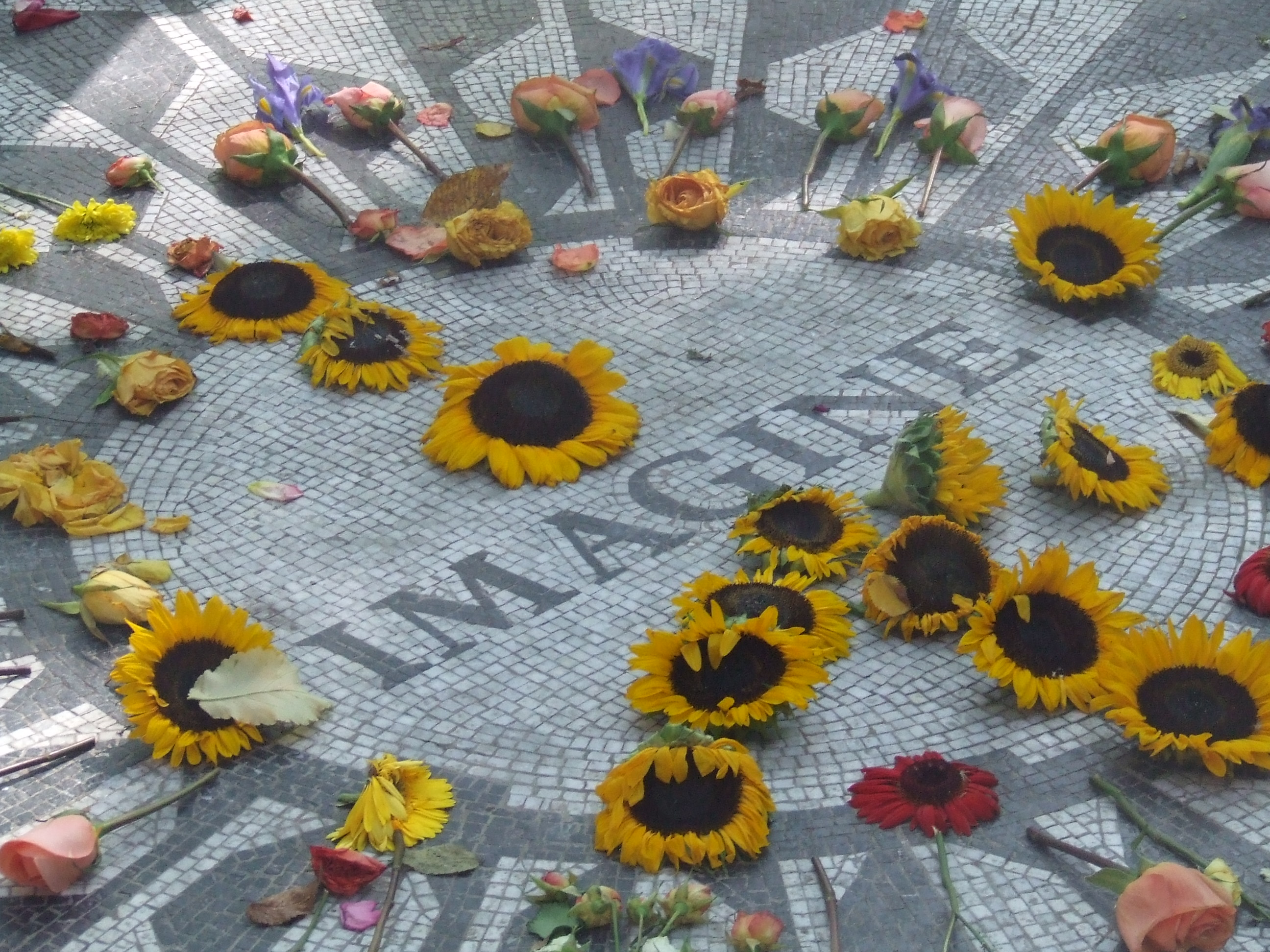 The mosaic in the Central Park memorial of John Lennon's famous song